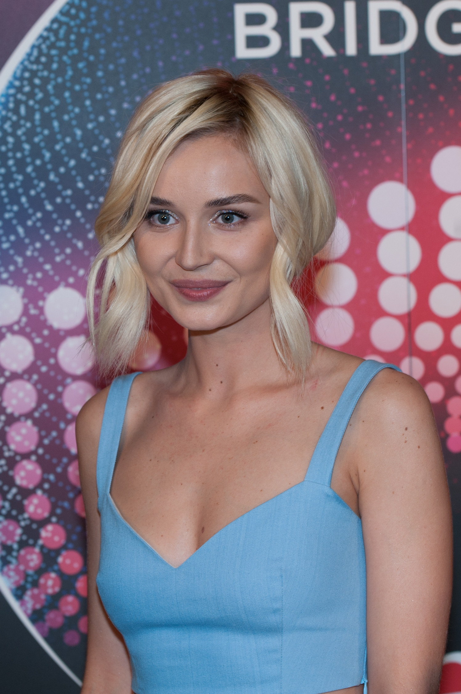 Eurovision Song Contest Vienna 2015: Polina Gagarina